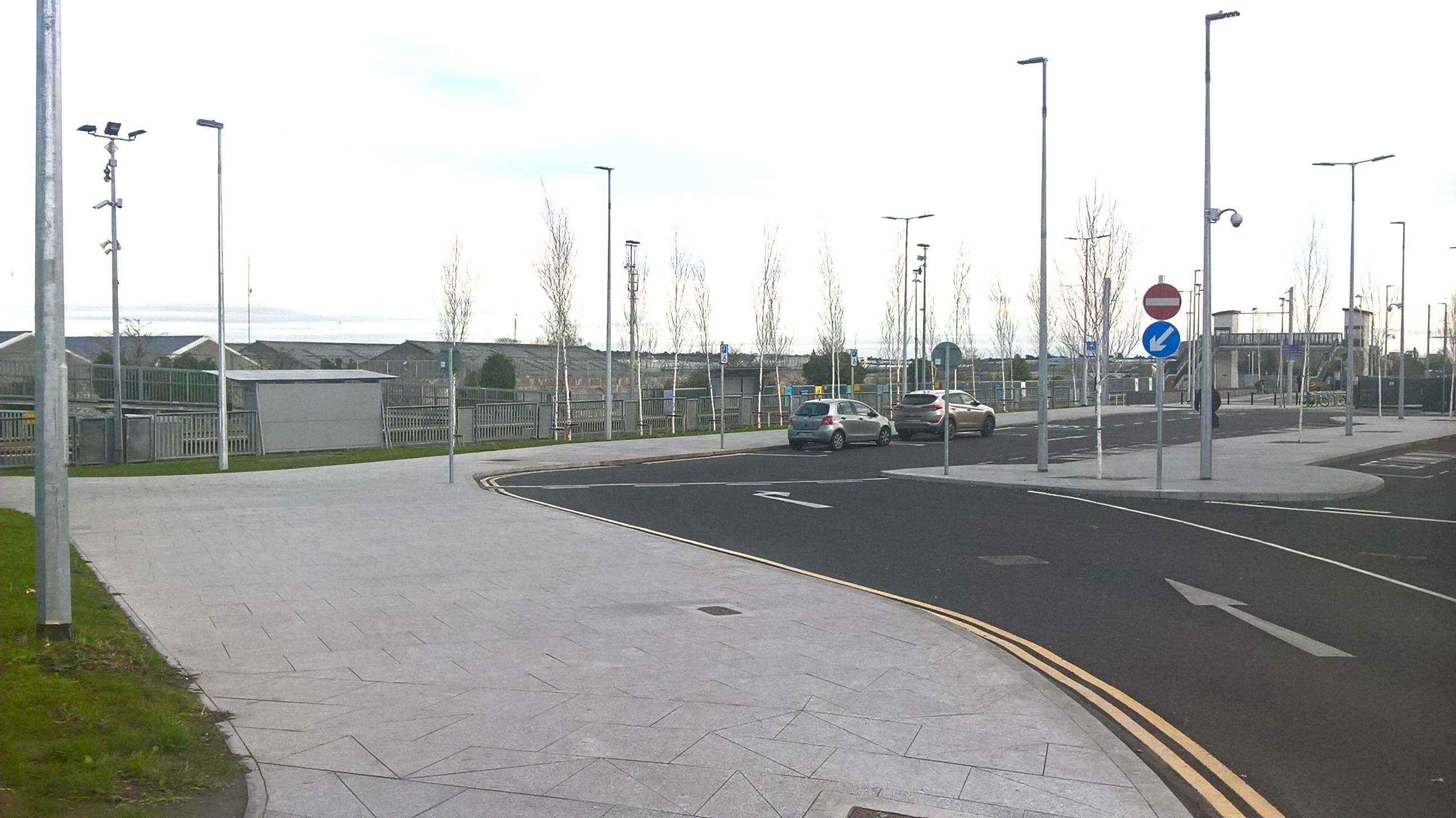 Broombridge train and Luas station and depot (2019)